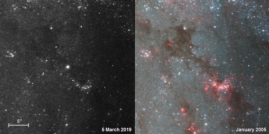 An Intermediate Luminosity Red Transient in Messier 51, discovered by ATLAS on 22 January 2019. The Hubble image was taken on 4 March 2020.